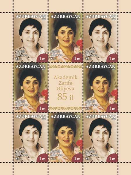 Stamp of Azerbaijan